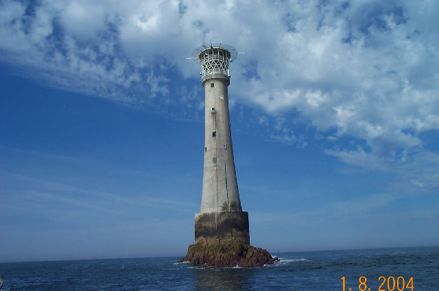 Bishop Rock lighthouse - Isles of Scilly. These rocks are one of the most western parts of Britain. The lighthouse is famous for marking the end of transatlantic boat challenges.